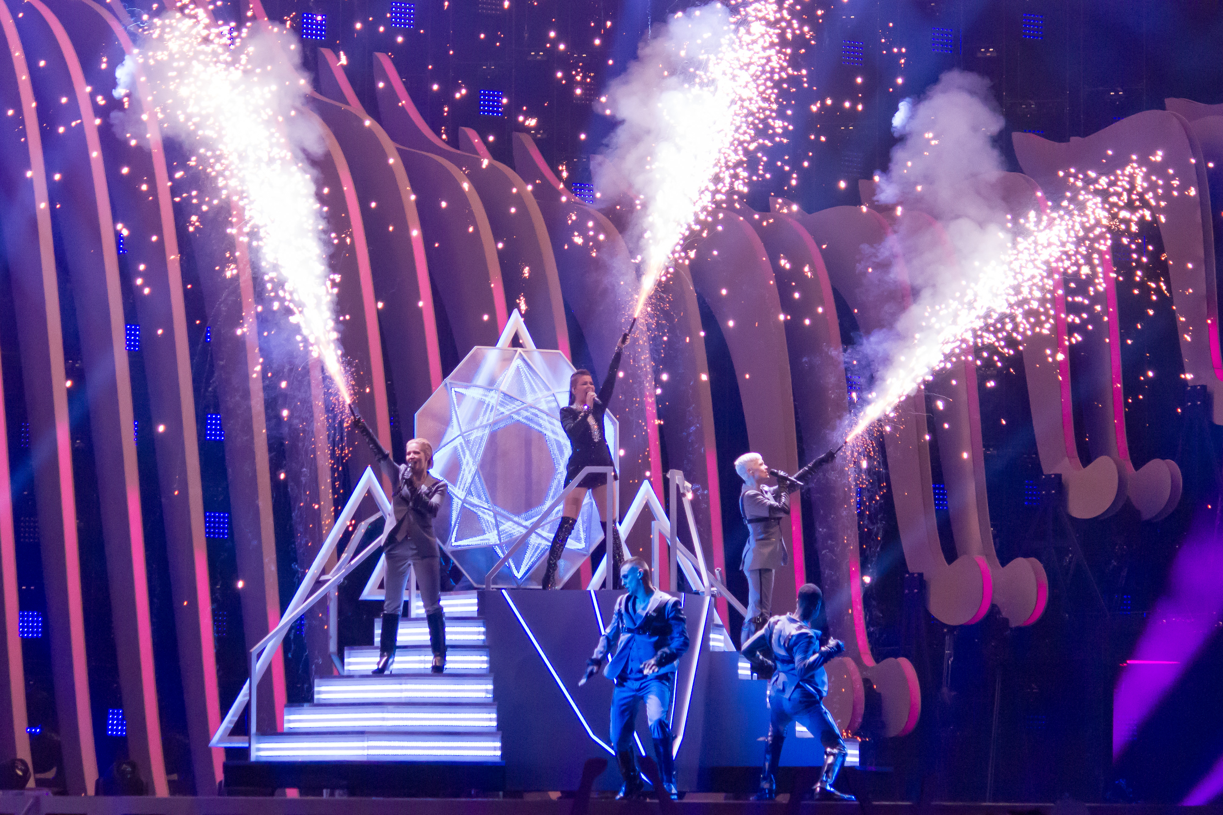 Saara Aalto representing Finland with the song "Monsters" during a rehearsal before the first semi final of the Eurovision Song Contest 2018 in Lisbon.